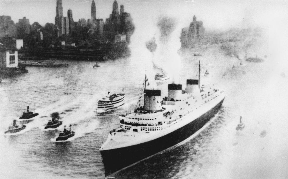 Normandie (ship) Arriving in New York, at the end of her record - breaking maiden voyage.